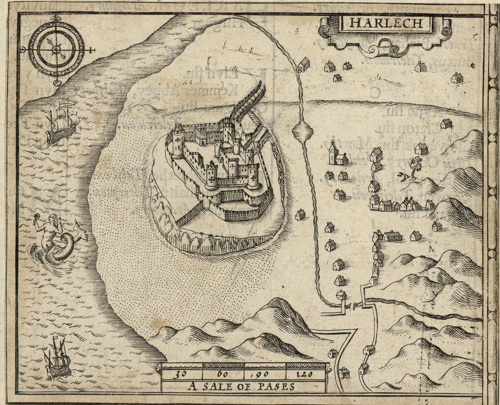 An image from a set of 8 extra-illustrated volumes of A tour in Wales by Thomas Pennant (1726-1798) that chronicle the three journeys he made through Wales between 1773 and 1776. These volumes are unique because they were compiled for Pennant's own library at Downing. This edition was produced in 1781. The volumes include a number of original drawings by Moses Griffiths, Ingleby and other well known artists of the period. Thomas Pennant (1726-1798)